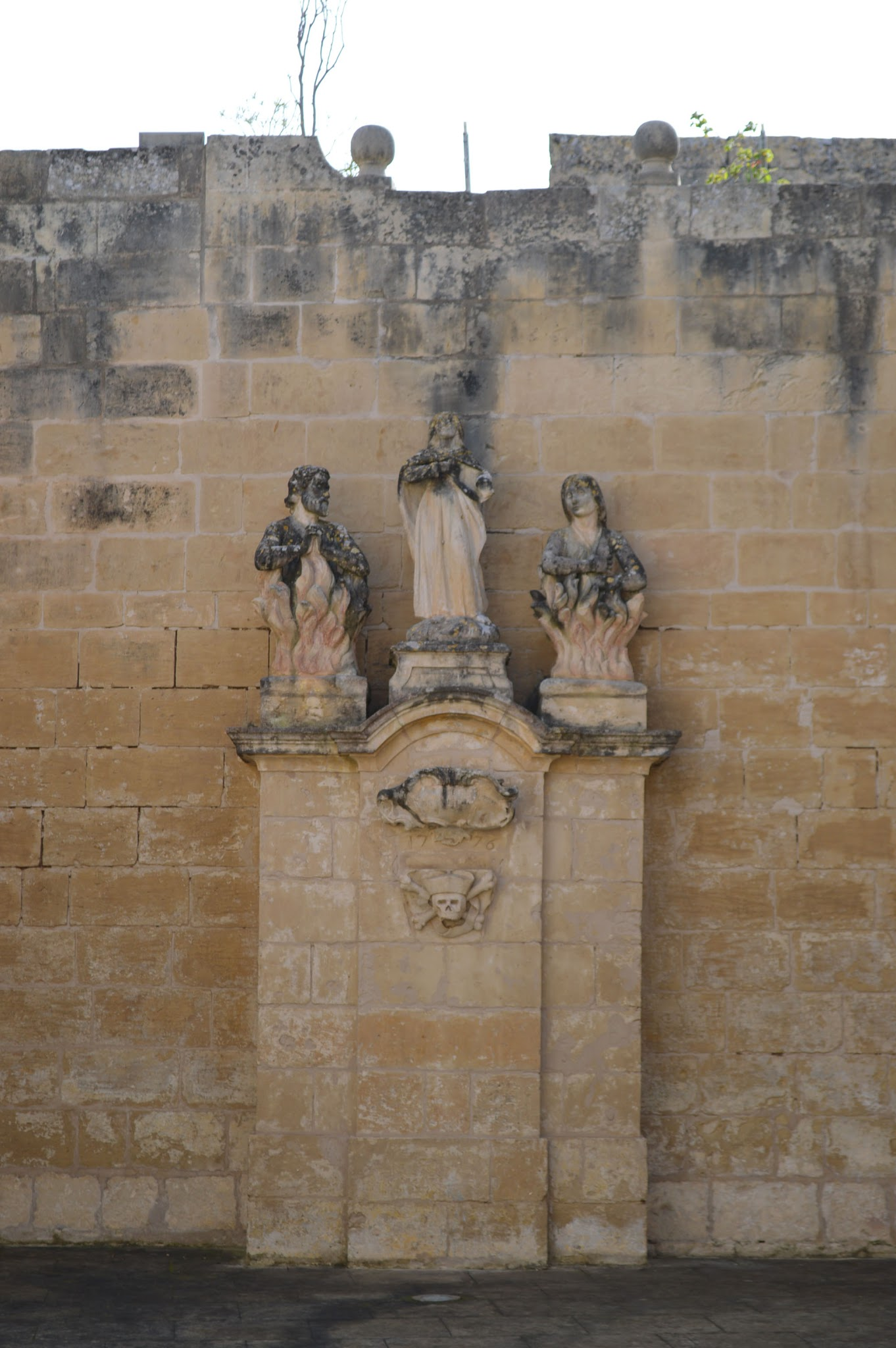 Niche of the Madonna of Purgatory This media is about Maltese cultural property with inventory number 01857.